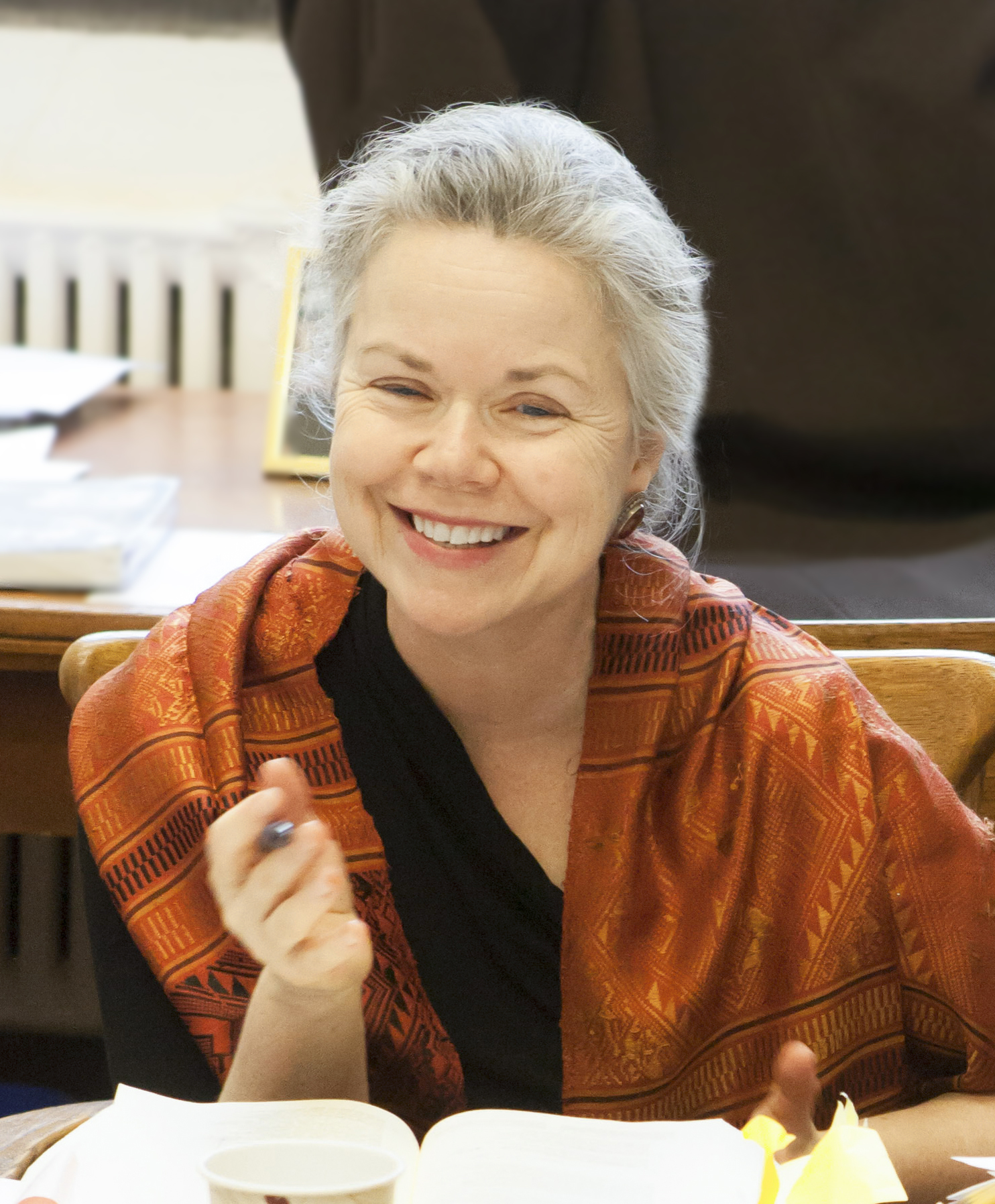 Professor Susan Stewart teaching a Freshman Seminar at Princeton University